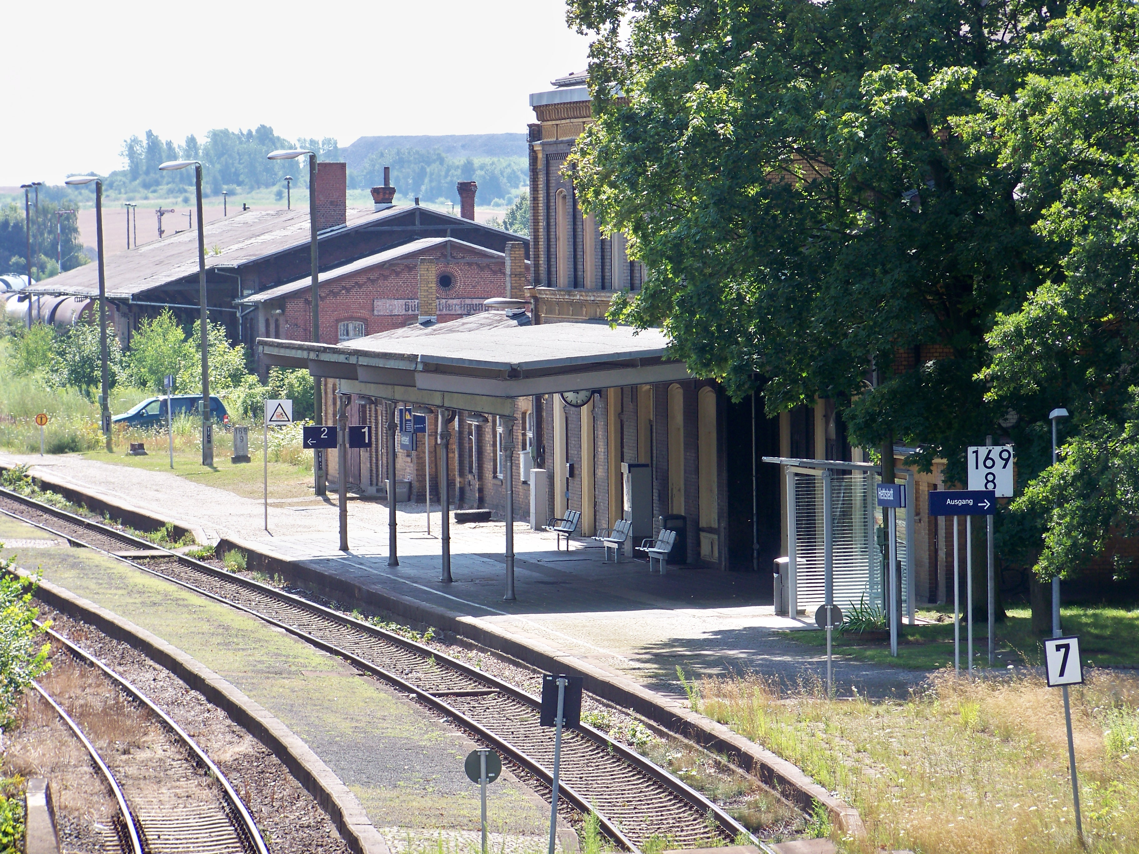 Hettstedt railway station, Germany